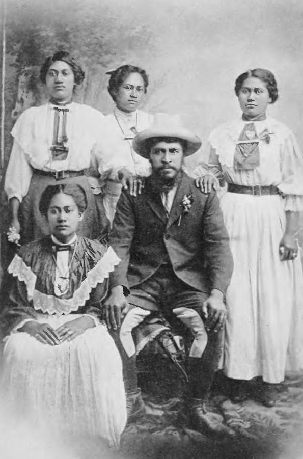 The prophet Rua Kenana and four of his wives. Image from scanned PD book